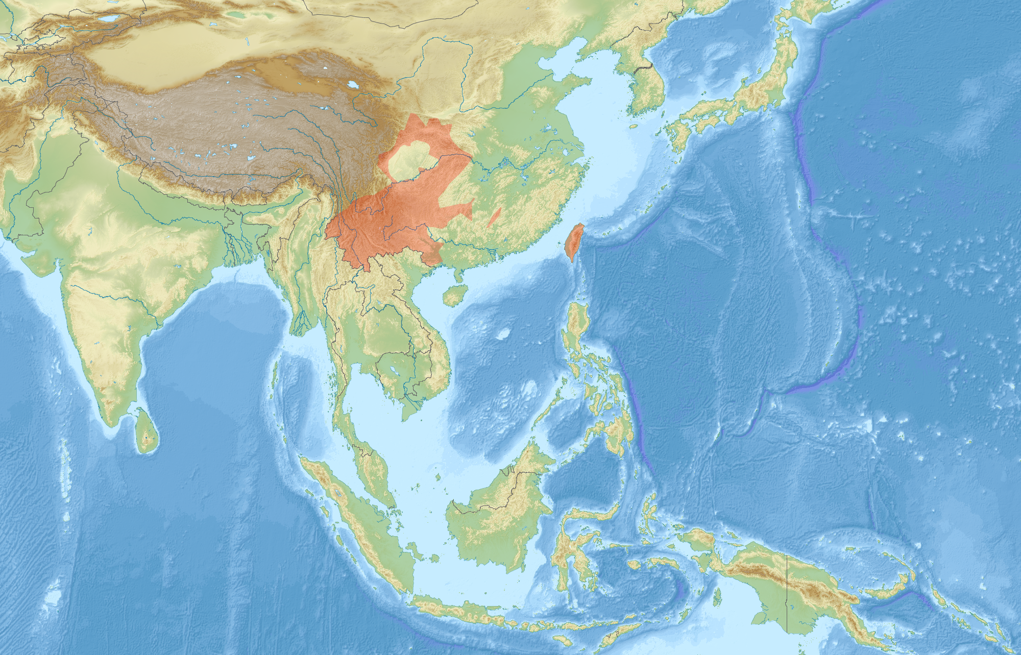 Distribution of Petaurista alborufus Projection: Equirectangular projection, strechted by 112.0%. Geographic limits of the map: N: 44.0° N S: -11.0° N W: 67.0° E E: 163.0° E GMT projection: -JX33.86666666666667cd/21.73111111111111cd GMT region: -R67.0/-11.0/163.0/44.0r GMT region for grdcut: -R67.0/-11.0/163.0/44.0r Relief: SRTM30plus. Made with Natural Earth. Free vector and raster map data @ .